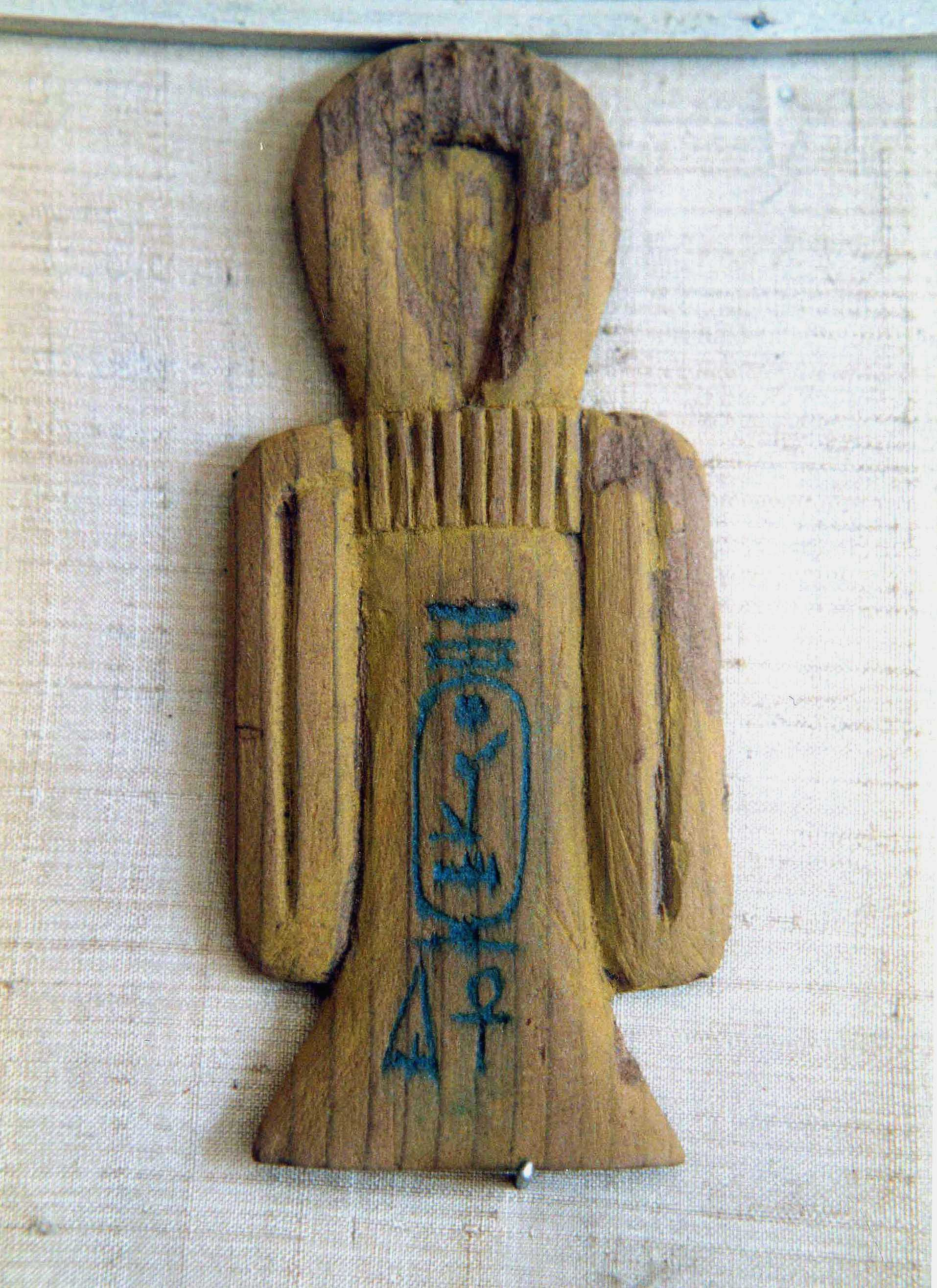 Isis knot bearing the cartouche of Seti I, Egyptian Museum Cairo